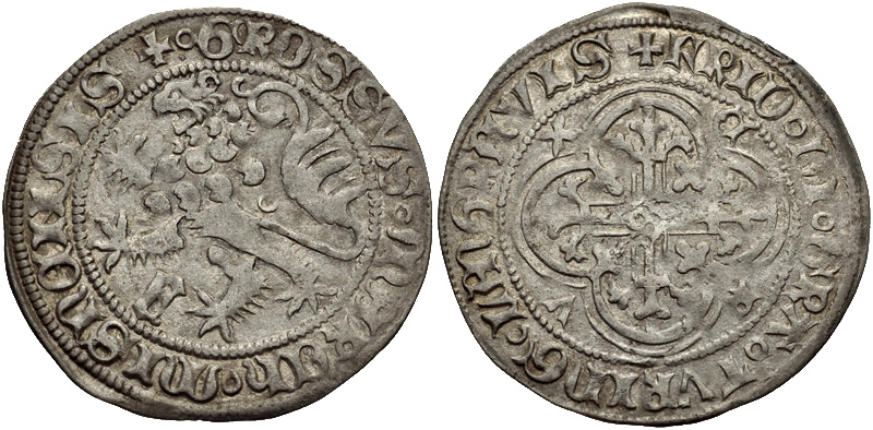 GERMANY, Sachsen-Markgrafschaft Meißen. Friedrich III der Strenge (the Strict). As Margrave of Meißen and Landgrave of Thüringen, 1349-1381. AR Groschen (28mm, 2.08 g, 4h). + FRID • BI • GRΛ • TVRInG • L(An)GRAVIS (annulet stops), voided cross fleurée within quadrilobe, with lis at each inner angle and C R V X at each outer angle / + GROSSVS • mARCh • mISnЄNSIS (annulet stops), lion rampant left; annulet to right, A below. Saurma 4361 var. (B below). VF, toned.